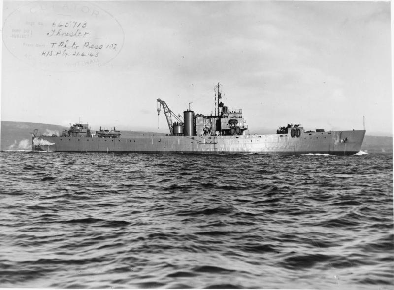 HMLST Thruster, a flat-bottomed landing craft, underway at sea.